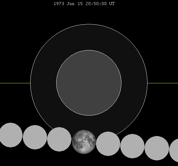 June 1973 lunar eclipse chart of moon's path through the earth's shadow. thumb